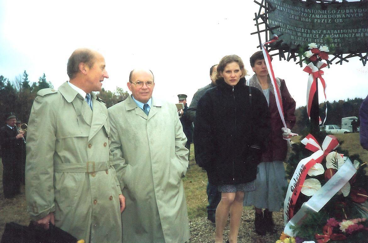 Opening of the memorial cross commemorating anty-communist polish partisants Antoni Żubryd and Janina Żubryd who were killed over there on 24.10.1946 by communist secret policy agent. 25.10.1998 Malinówka, Co. Brzozów, Poland